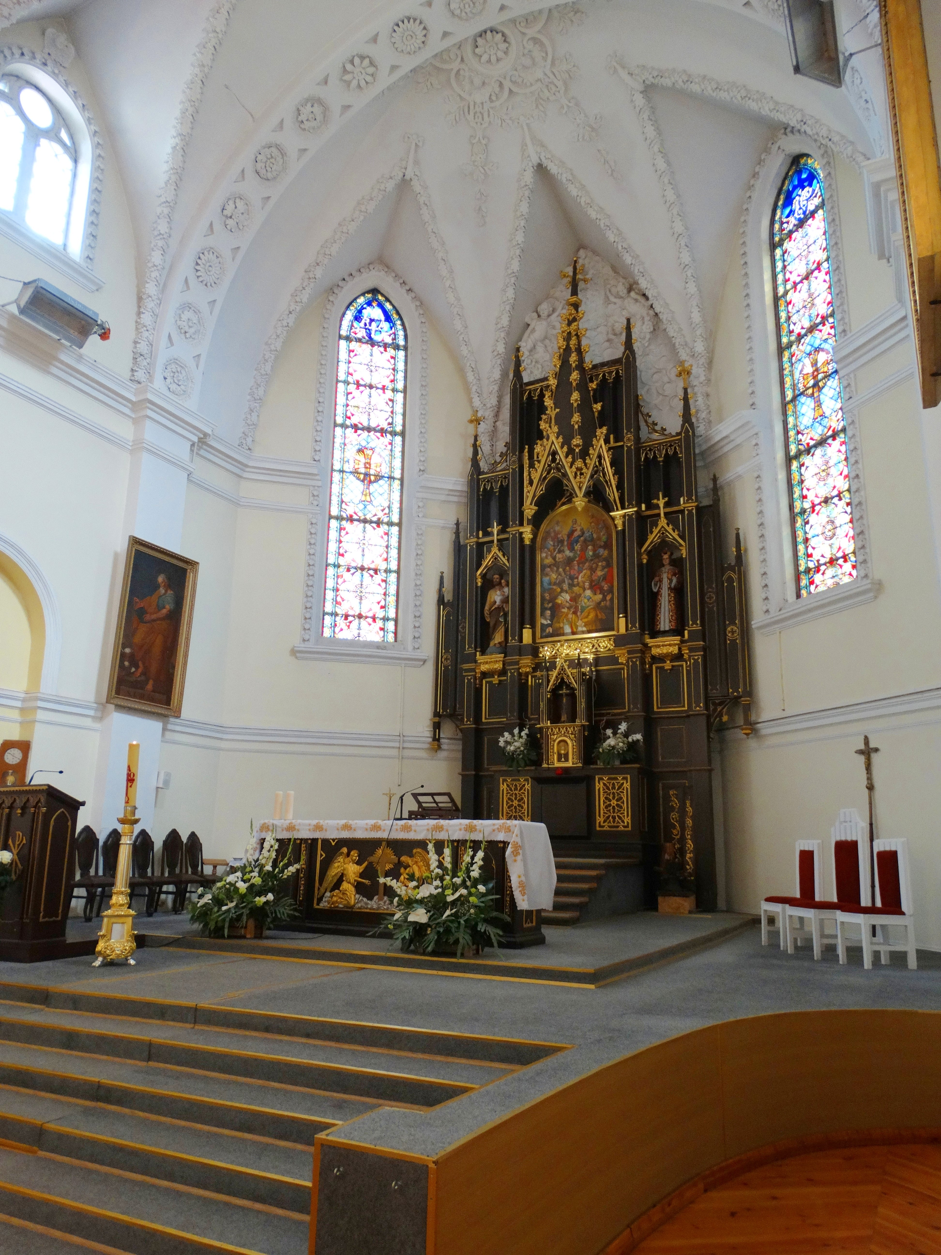 All Saints church in Švenčionys, Lithuania